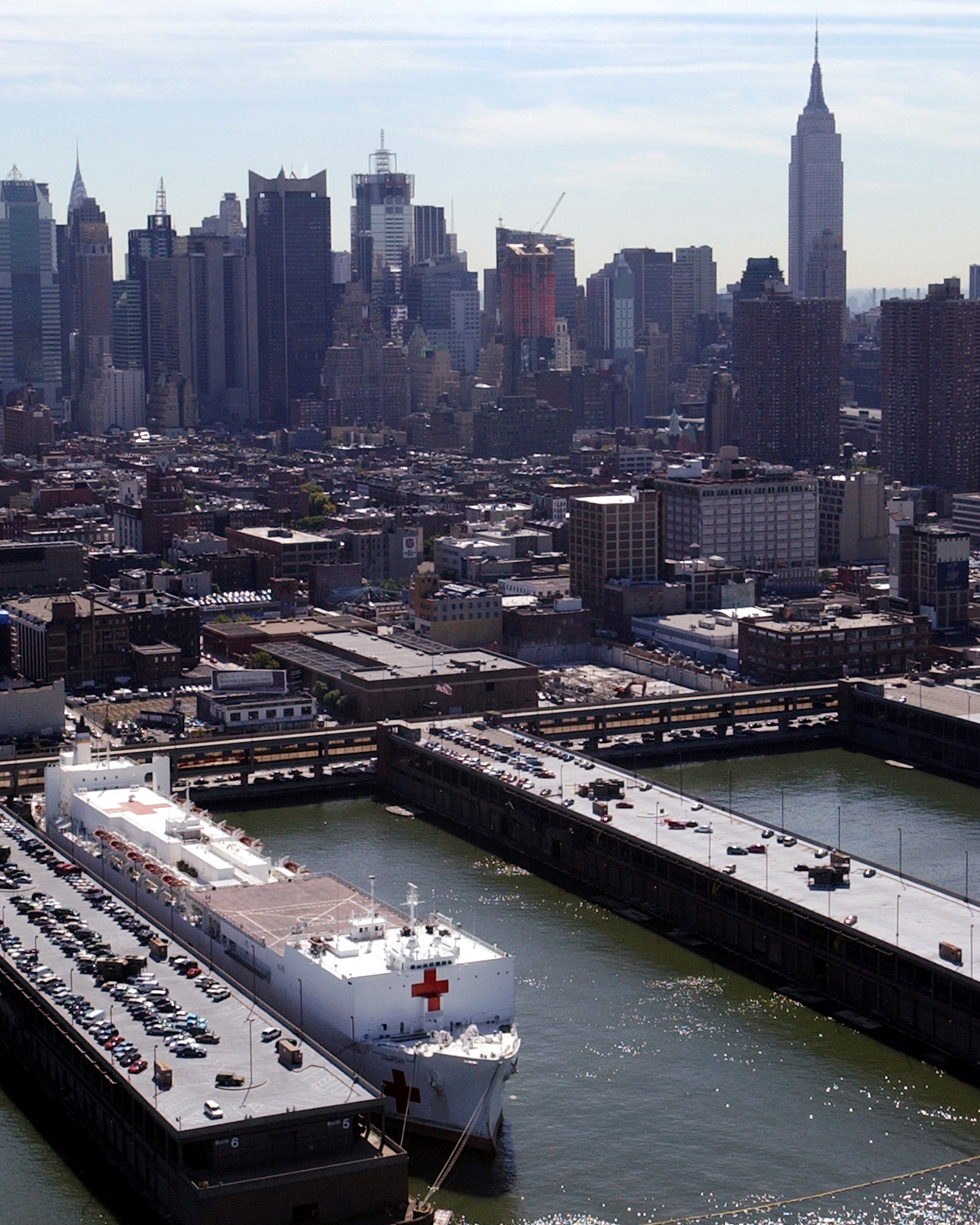 New York, N.Y. (Sept. 17, 2001) -- Hospital Ship USNS Comfort (T-AH 20) docks pierside in Manhattan. The ship deployed to New York to render assistance following the Sept. 11 terrorist attack on the World Trade Center. U.S. Navy photo by Chief Photographer's Mate Eric J. Tilford. (RELEASED)